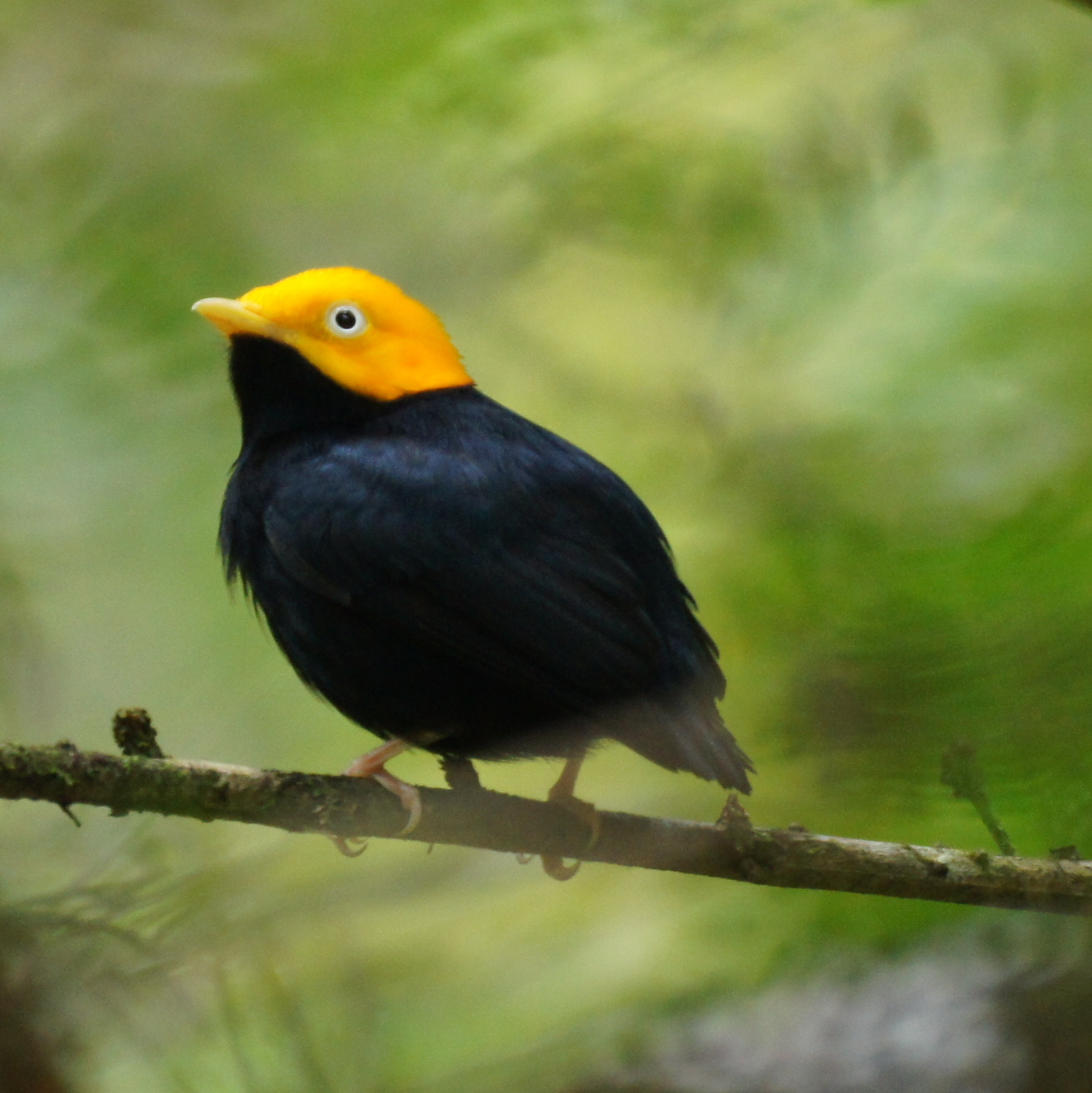 Golden-headed Manakin - Pipra erythrocephala - Dixiphia erythrocephala